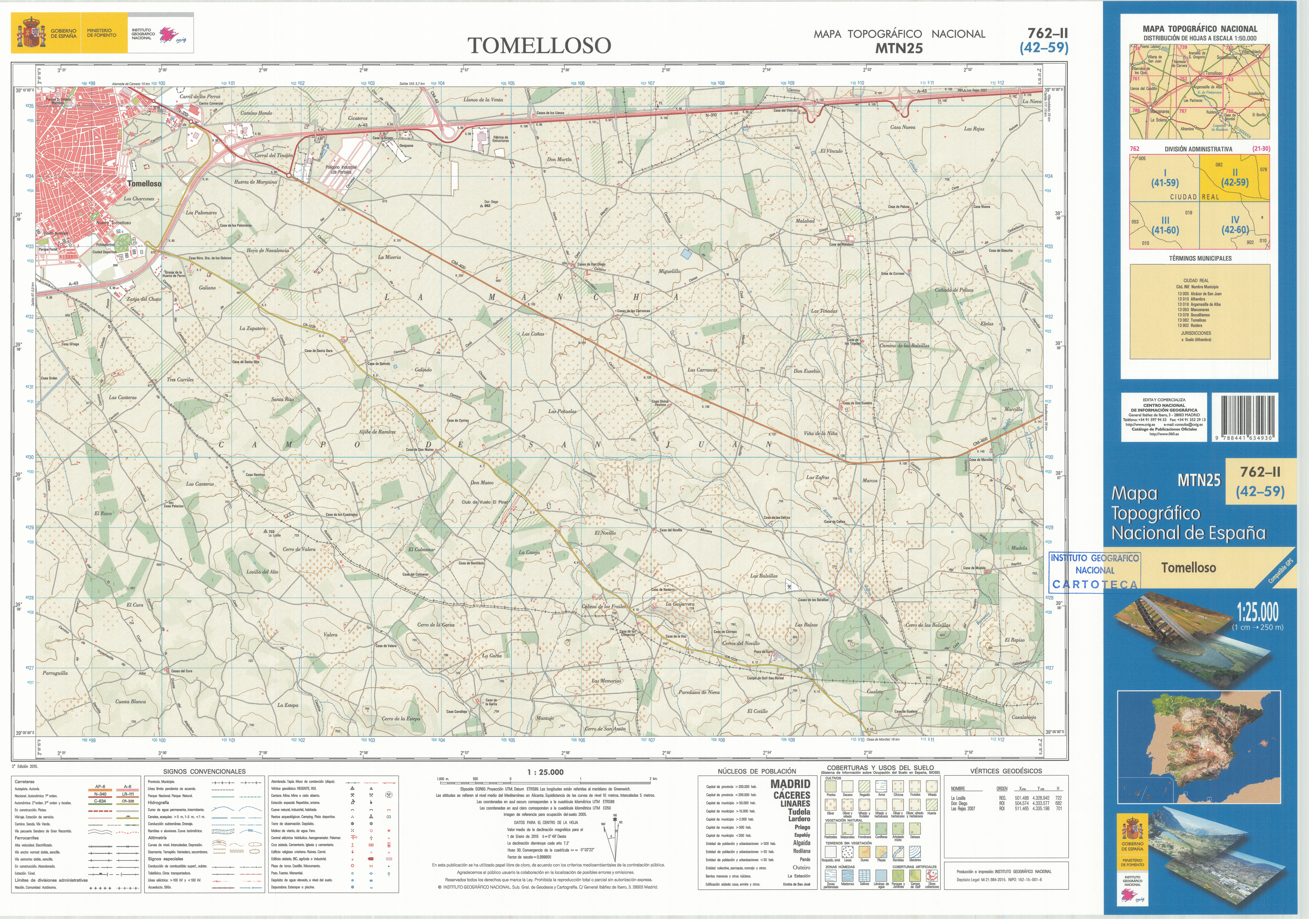 Fragment 0762c2 of the National Topographic Map of Spain in 2015 at a scale of 1:25000 printed and scanned with a resolution of 250 ppi. It shows Tomelloso.